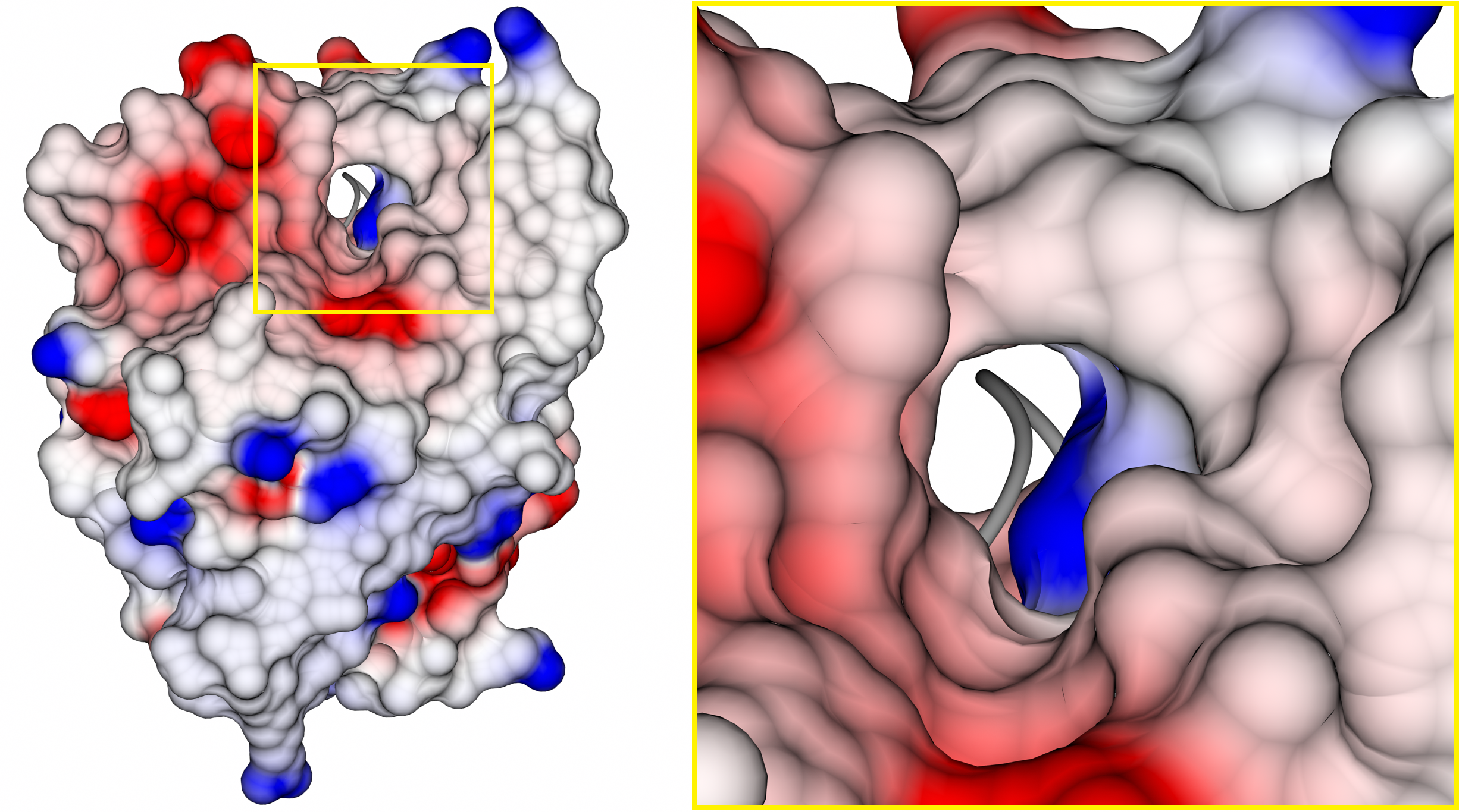 Protein topology of human LYPLAL1.